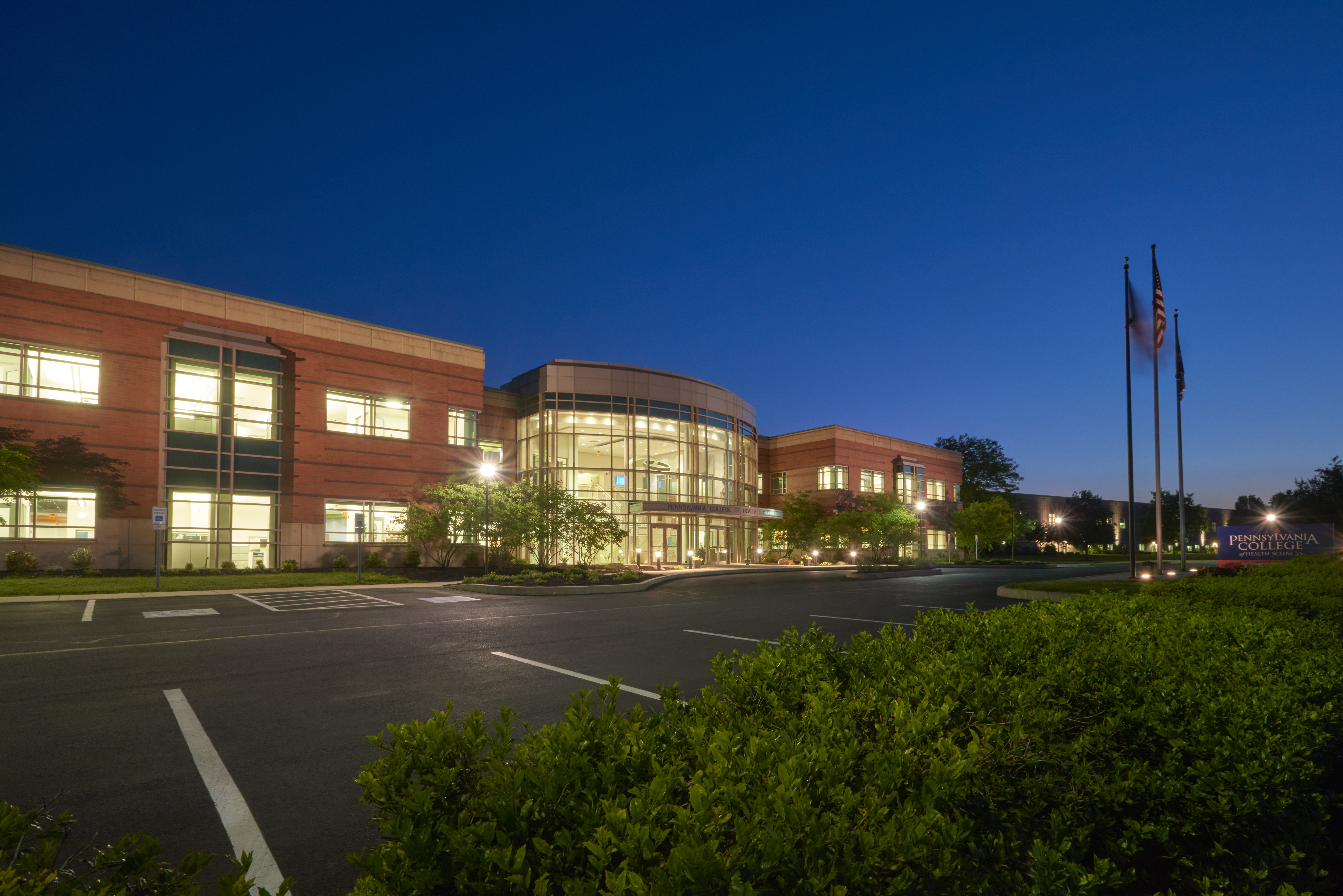 A dynamic and academically rigorous institution, Pennsylvania College of Health Sciences is a private, accredited, four-year college focusing exclusively on the field of health care.